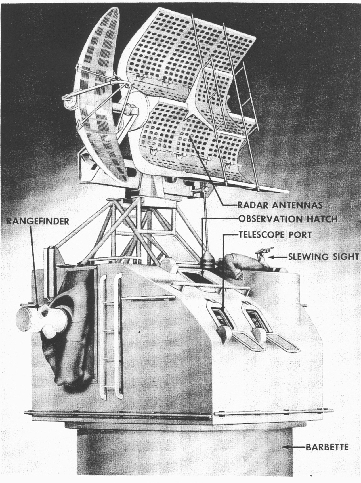 Mk 37 Director c1944. Cropped portion of image scanned from source. coppied from en-wp